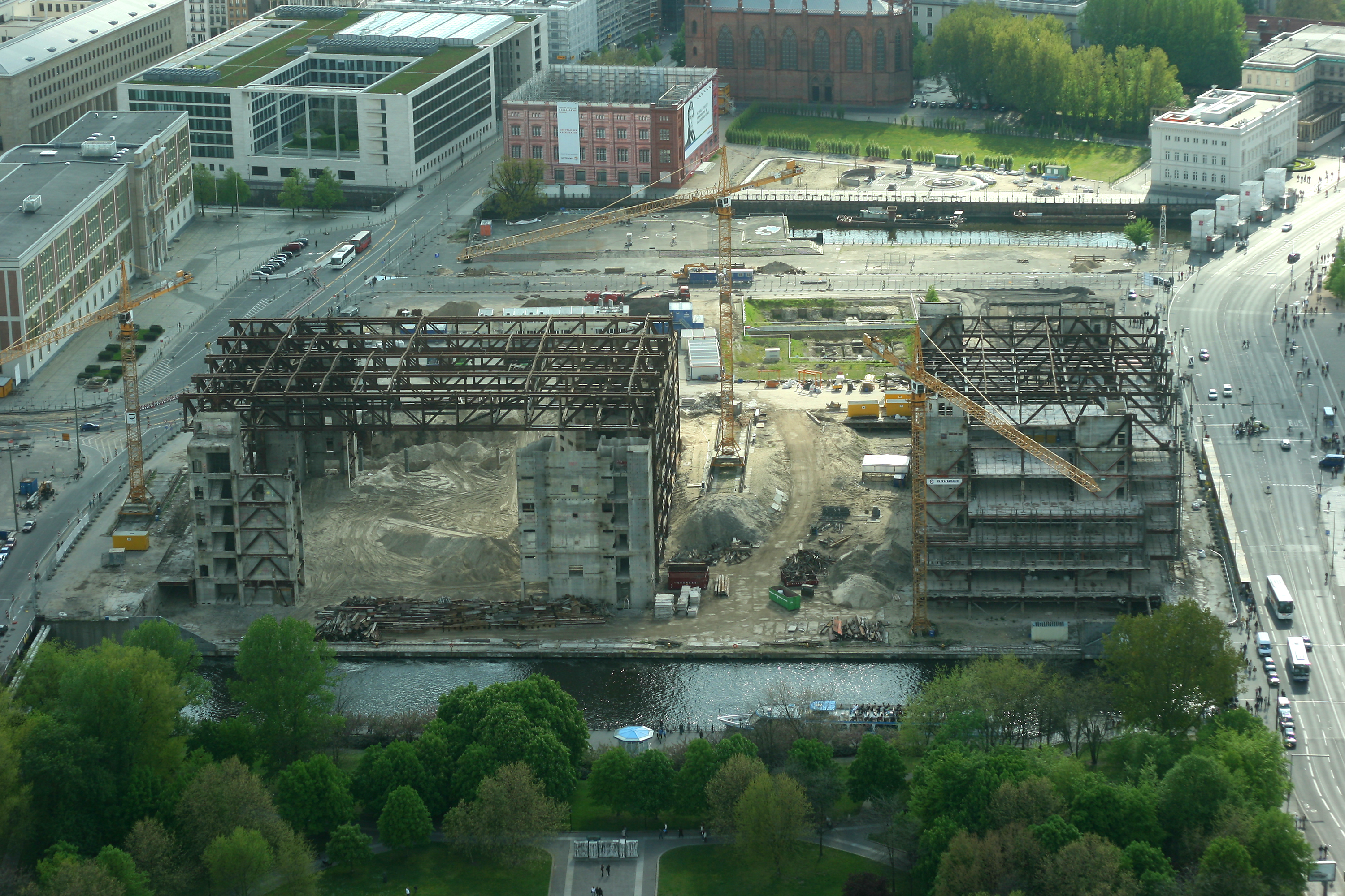 Palast der Republik (Berlin, Germany) in demolition, view from television tower